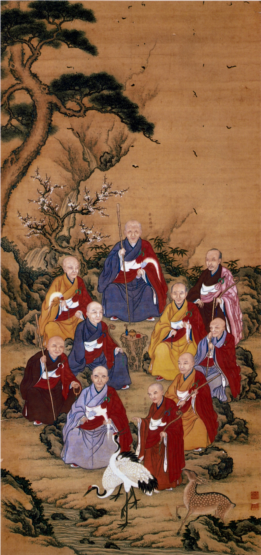 Patriarchs of Zen Buddhism,Yamamoto Jakurin,Hanging scroll,color on silk,Kofukuji-ji Temple,Nagasaki Pref